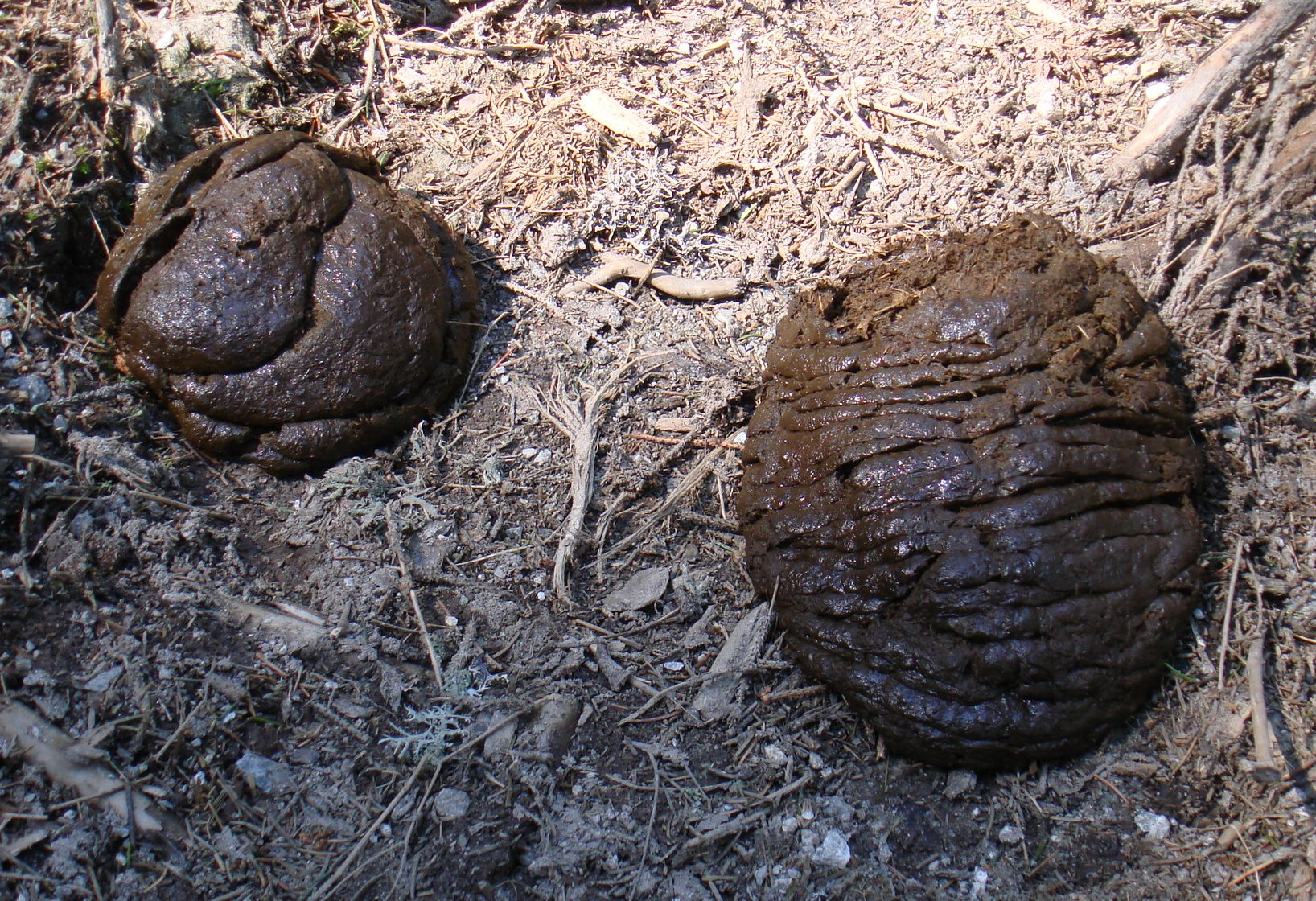 Cow dung on a path in the forest